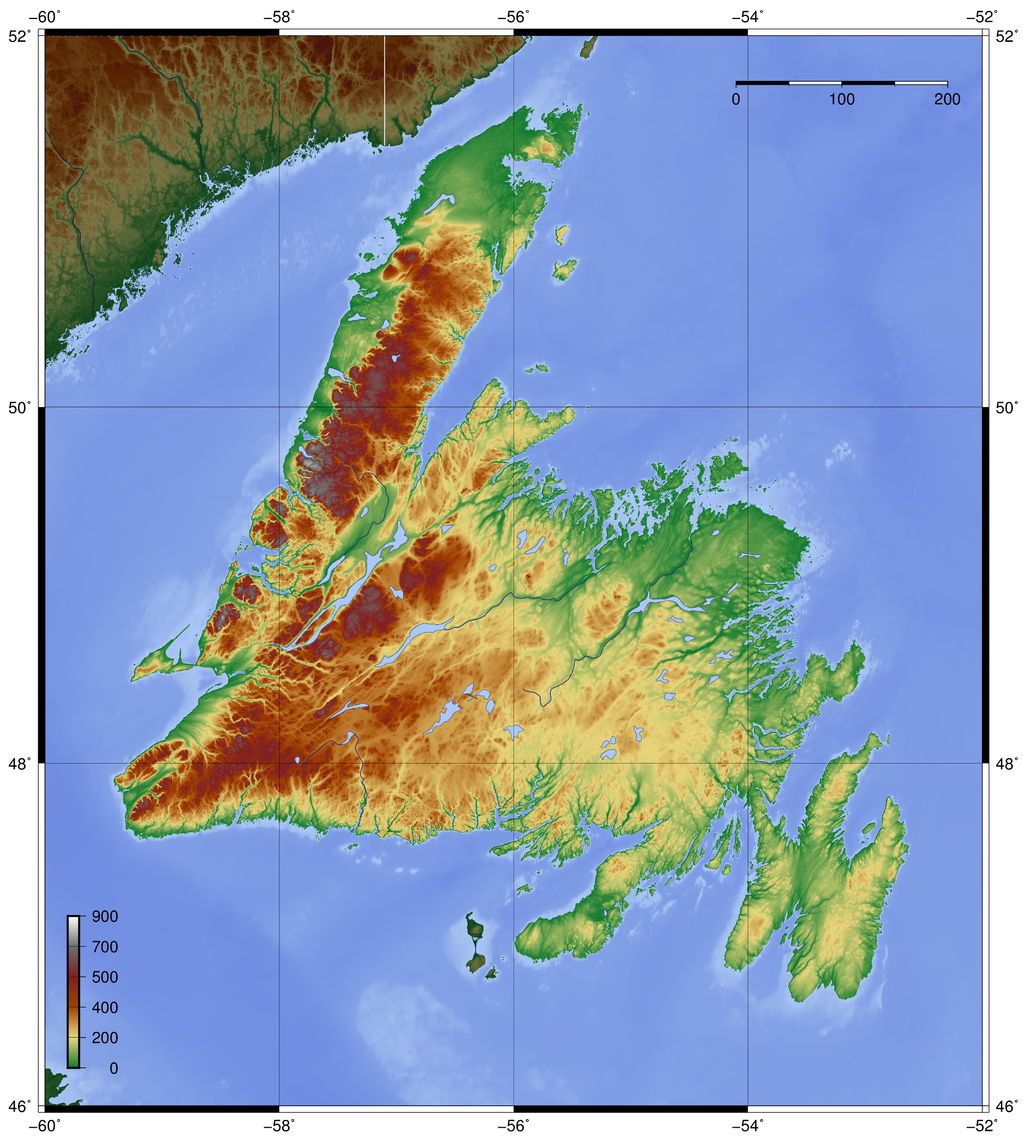 Topography of Newfoundland, created with GMT 5.1.2